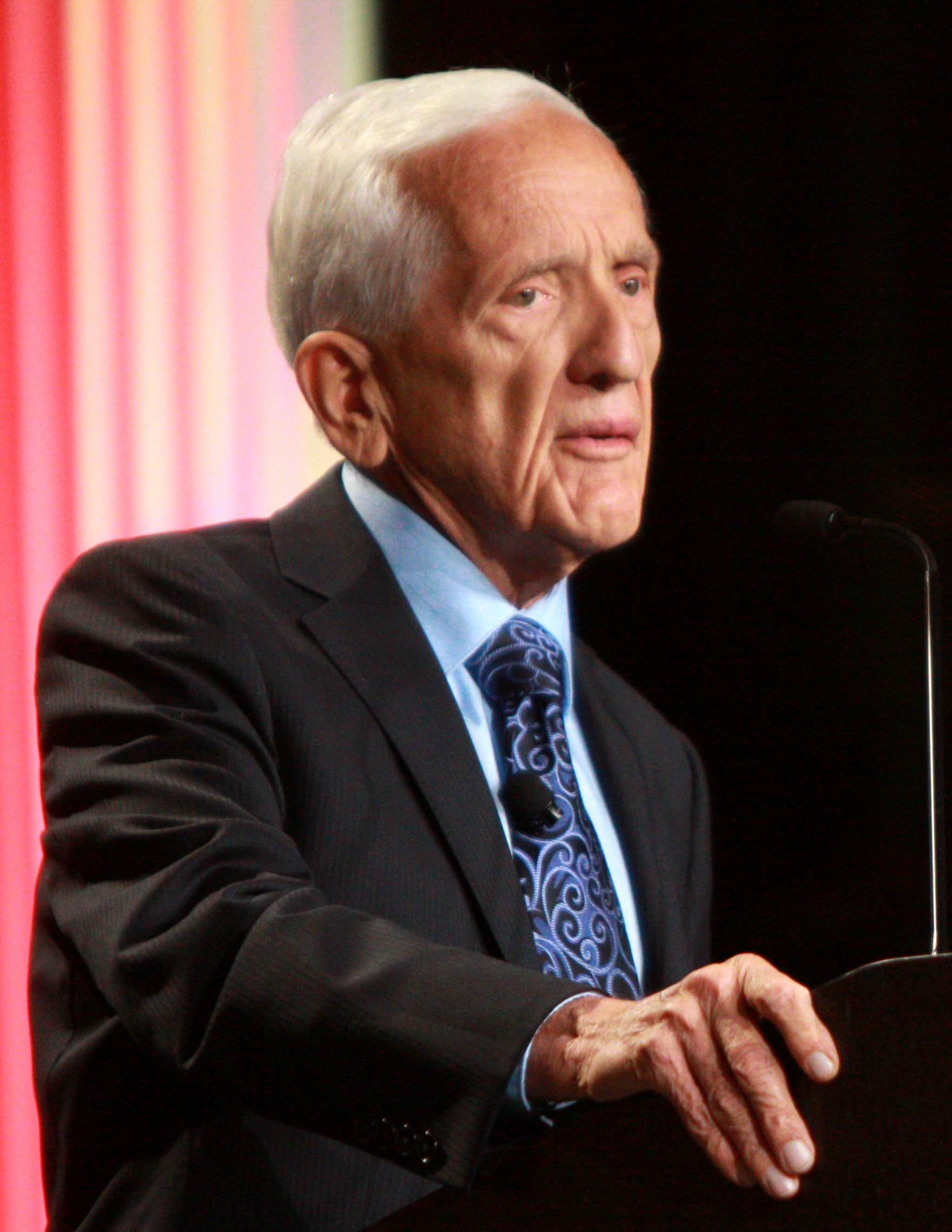 T. Colin Campbell speaking in 2013 at FreedomFest in Las Vegas, Nevada, USA